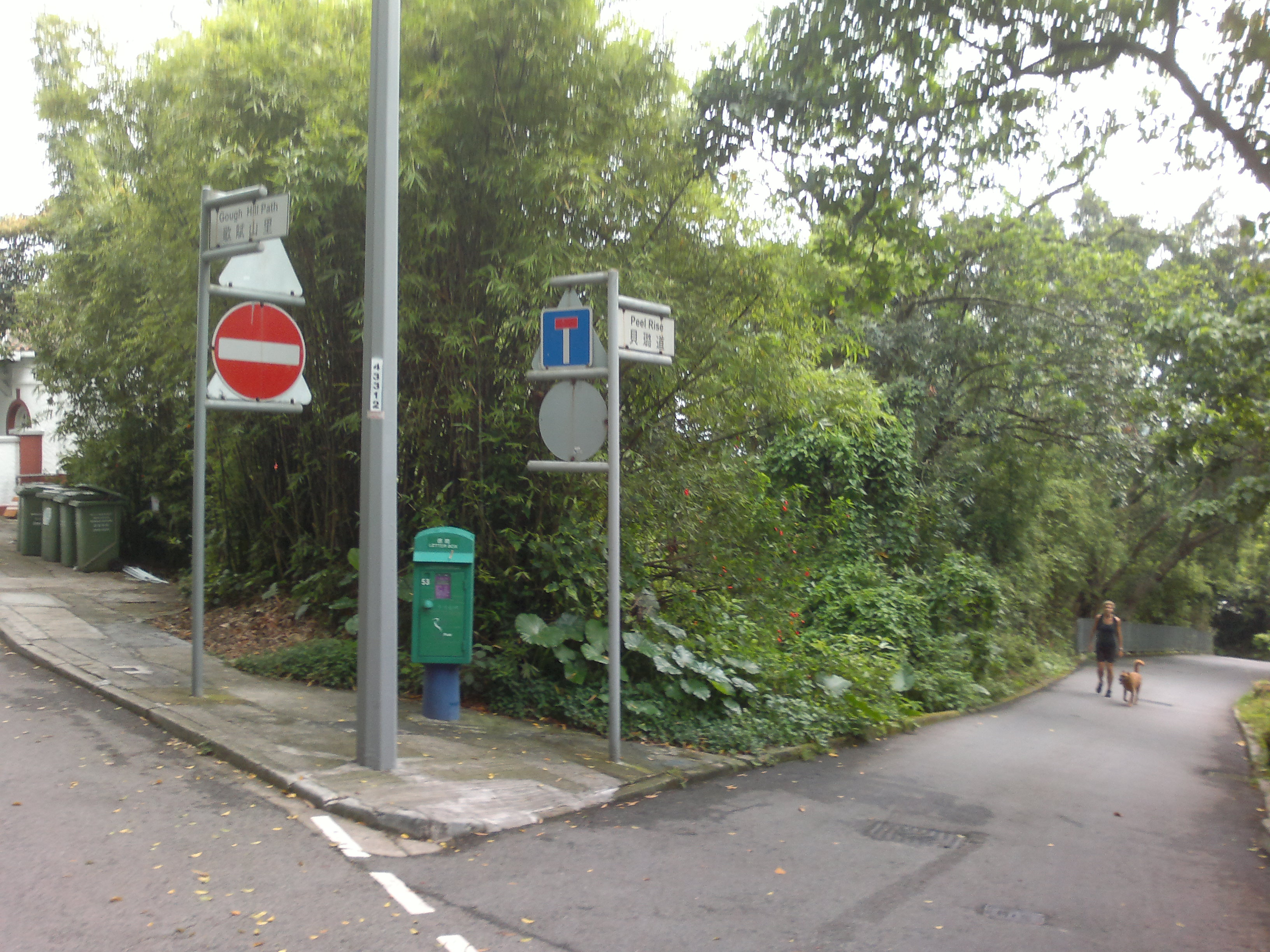 Peel Rise near Gough Hill Path